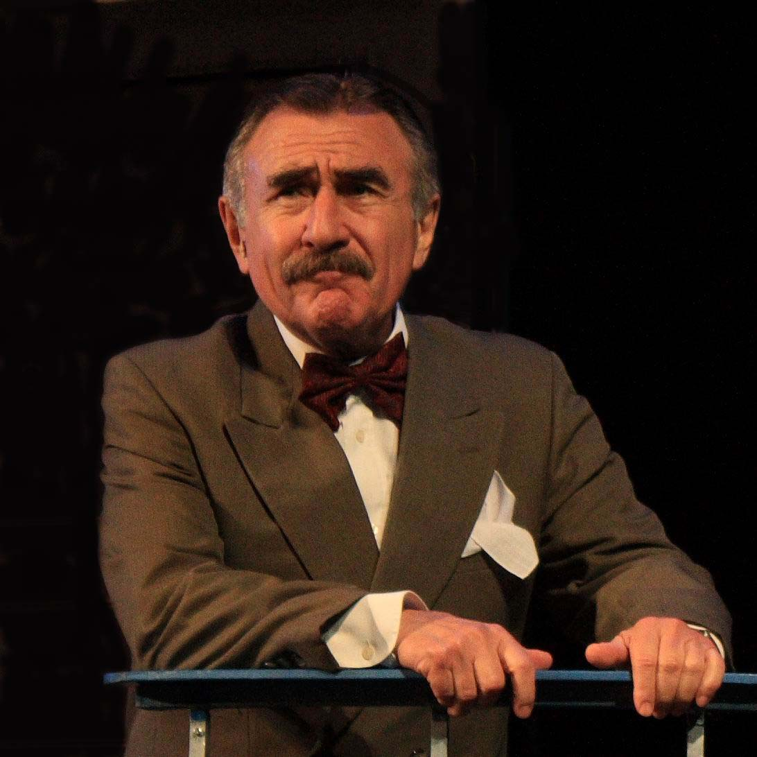 Leonid Semenovitsch Kanevski — is a Soviet, Russian and Israeli actor.